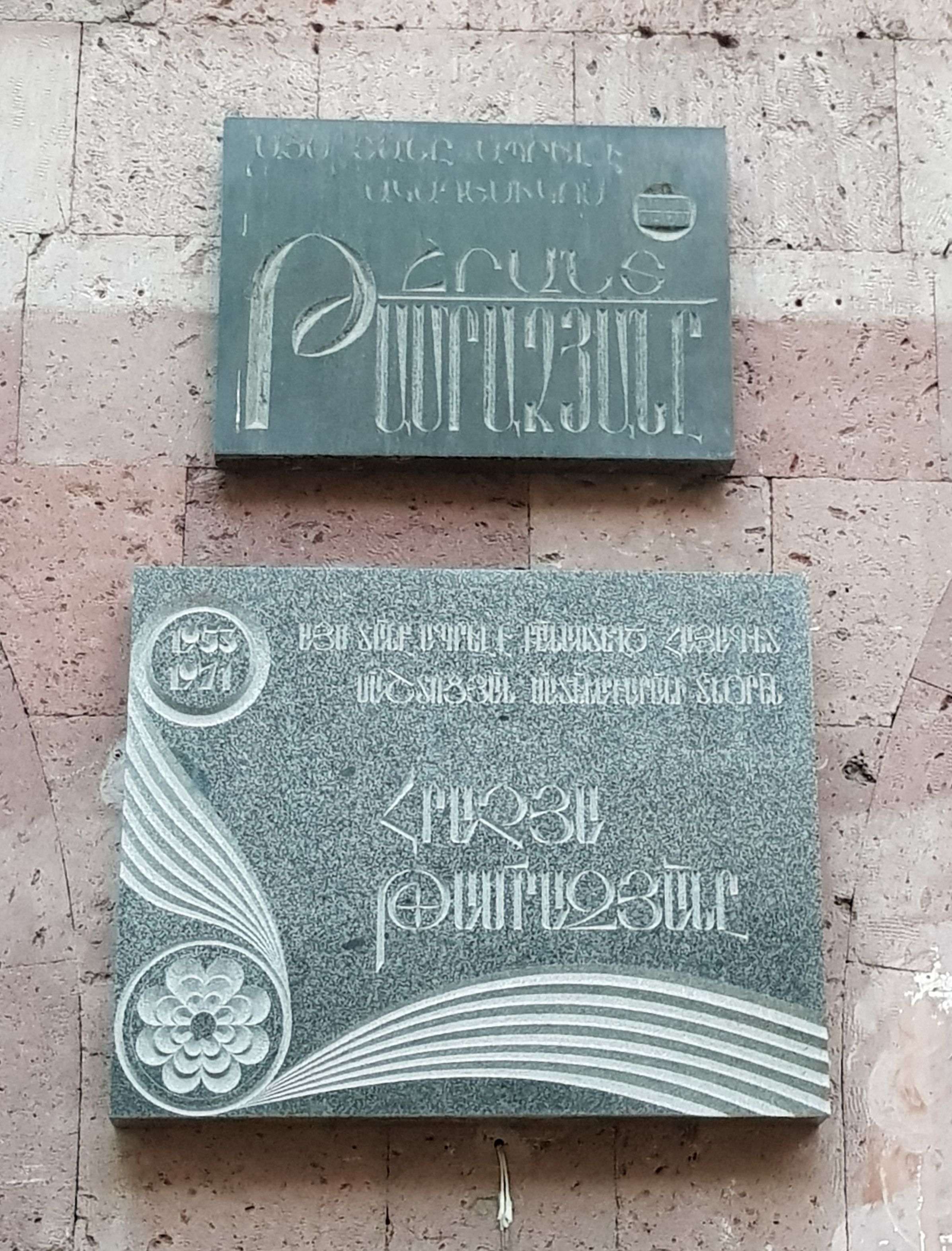 Hrant & Hrachya Tamrazyan's Plaques